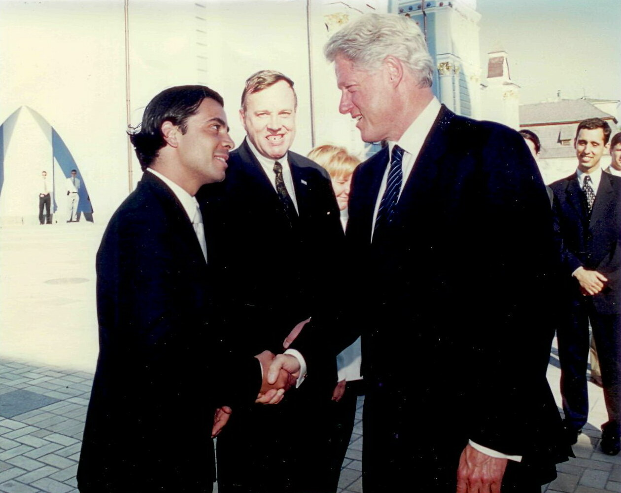 During an official visit to the United States Bill Clinton to Ukraine, 1995